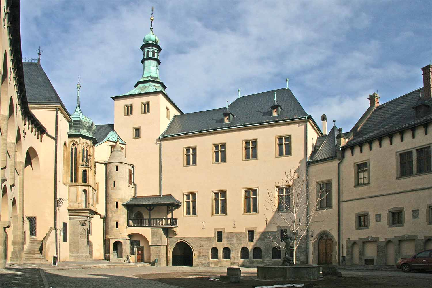 Italian Court in Kutná Hora, Czech Republic. Česky: Vlašský dvůr v Kutné Hoře.